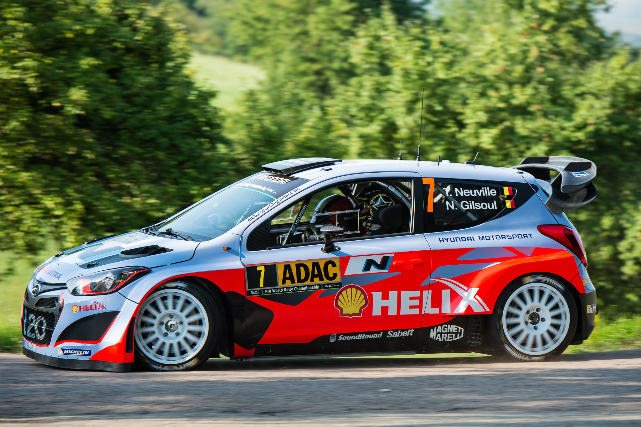 ADAC Rallye Deutschland 2014,FIA,FIA World Rally Championship,Hyundai Motorsport,Hyundai i20 WRC,Motorsport,Nicolas Gilsoul,Rally,Rallye,Shakedown,Thierry Neuville,WRC